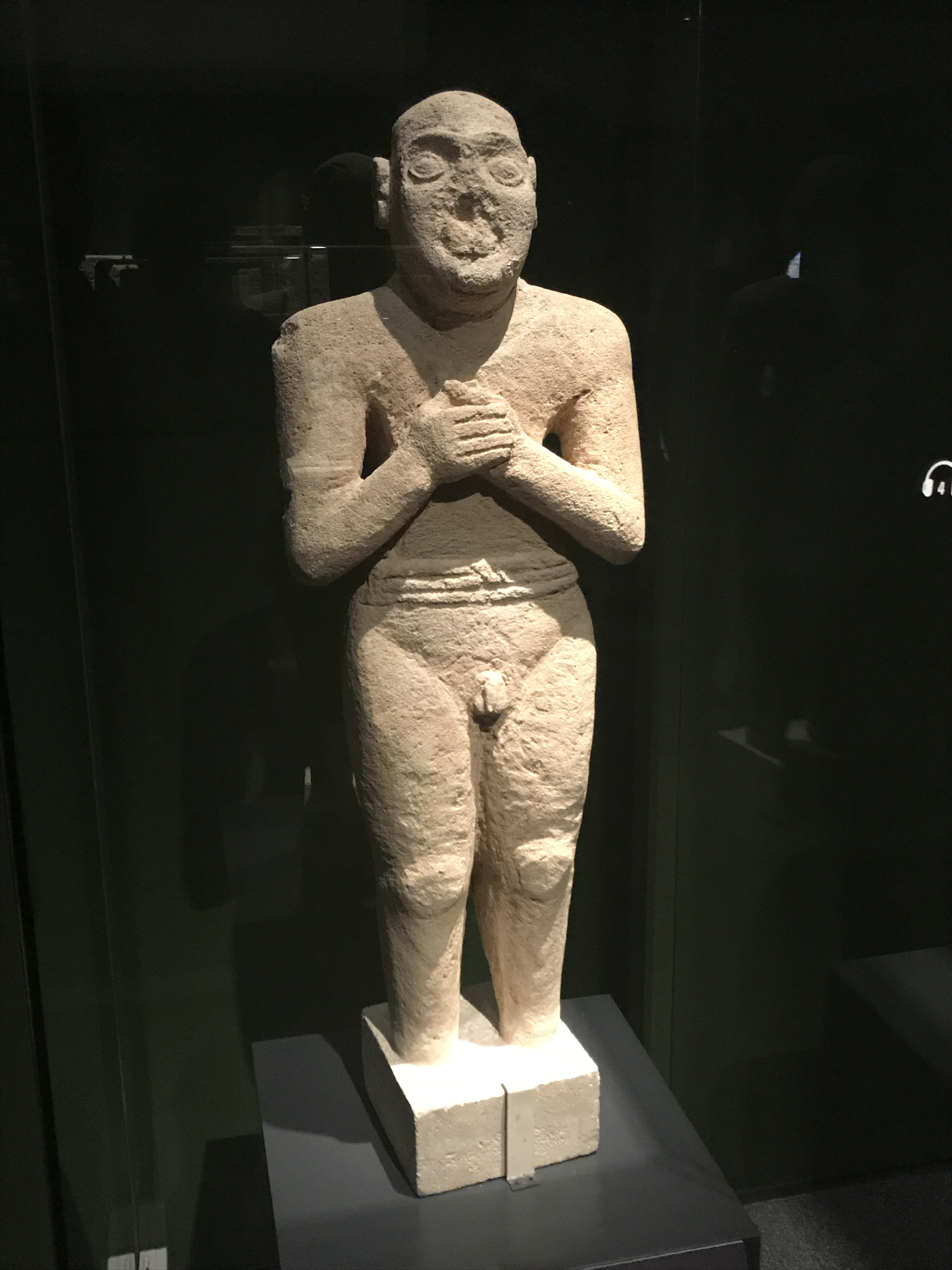 Roads of Arabia: Archaeological Treasures of Saudi Arabia exhibition at National Museum of Korea.